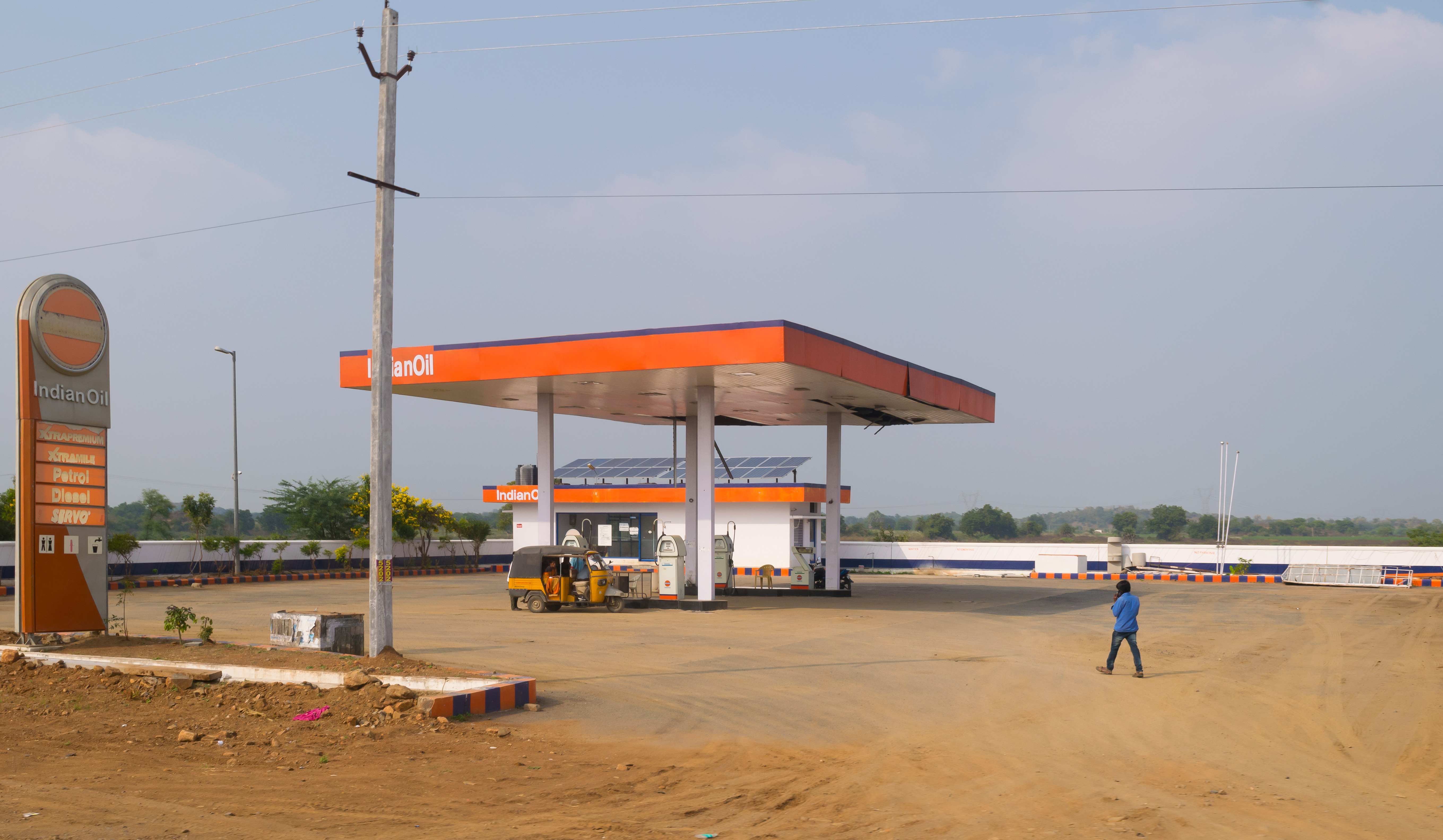 An IOCL Petrol Bunk in Khammam